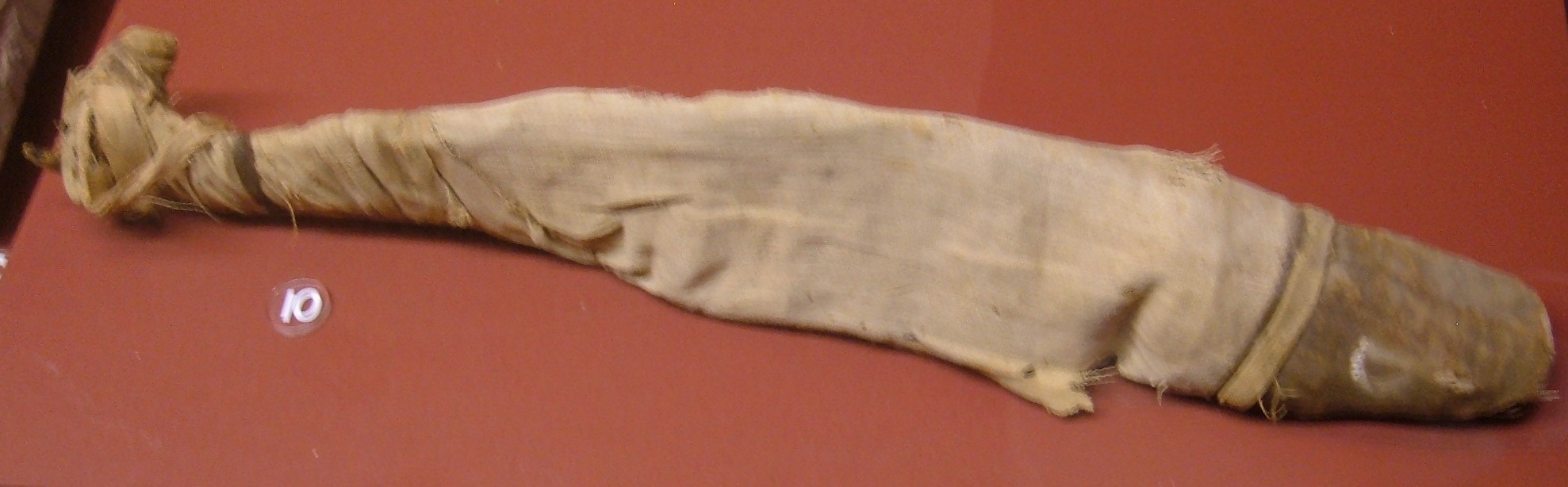 Mummified Nile catfish (Middle Kingdom) placed in a tomb for the deceased to eat in the afterlife on display at the Rosicrucian Egyptian Museum in San Jose, California. RC 2182